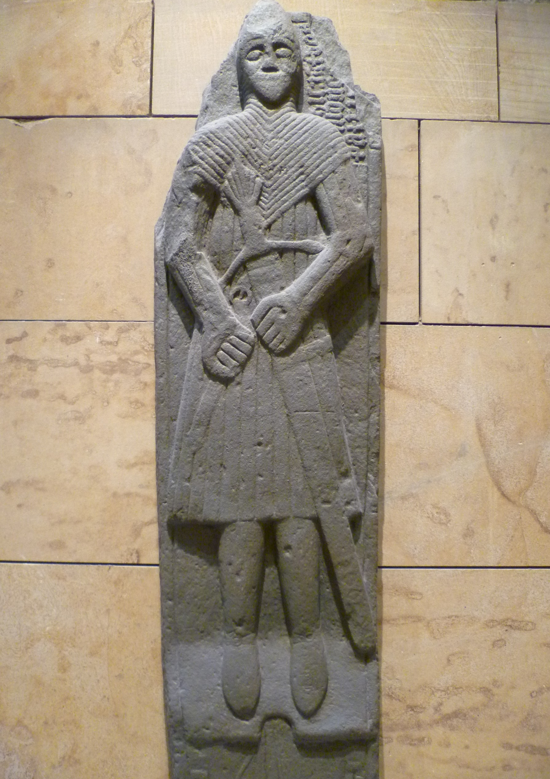 Cast of an original, mid-16thC graveslab at Finlaggan, where MacGill'easbuig was a Crown tenant. He is shown in West Highland armour, implying his status as a mercenary in the wars in Ireland.